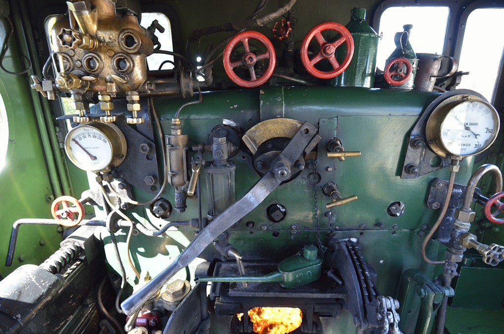 NSWGR Locomotive Z1210